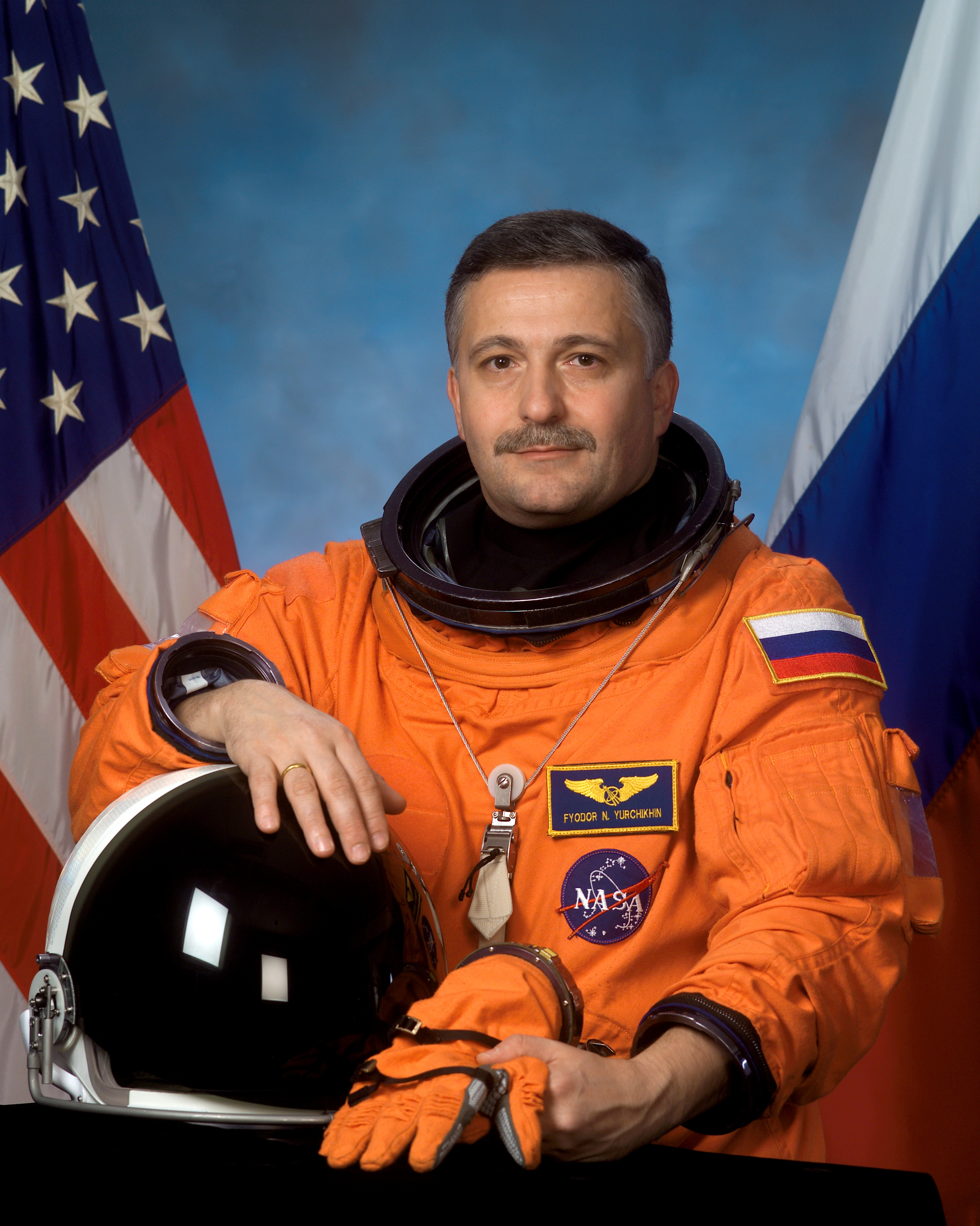 Cosmonaut Fyodor Nikolayevich Yurchikhin, STS-112 mission specialist representing Rosaviakosmos.